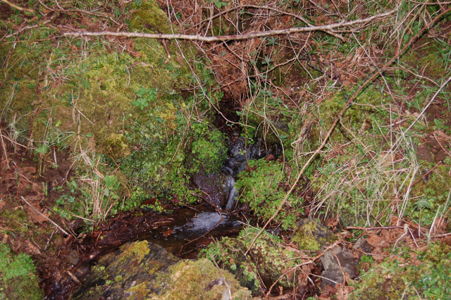 Sacred spring at Loch Sheanta This is a place of legend and religion, of pagan and Christian history. It is told that the spring has magical or holy properties and can cure a wide range of diseases. Invalids are told to circle the spring three times deosil (clockwise) after drinking from it. Given the slope, mud and trees, circling it even once would be a challenge - even for the healthy.